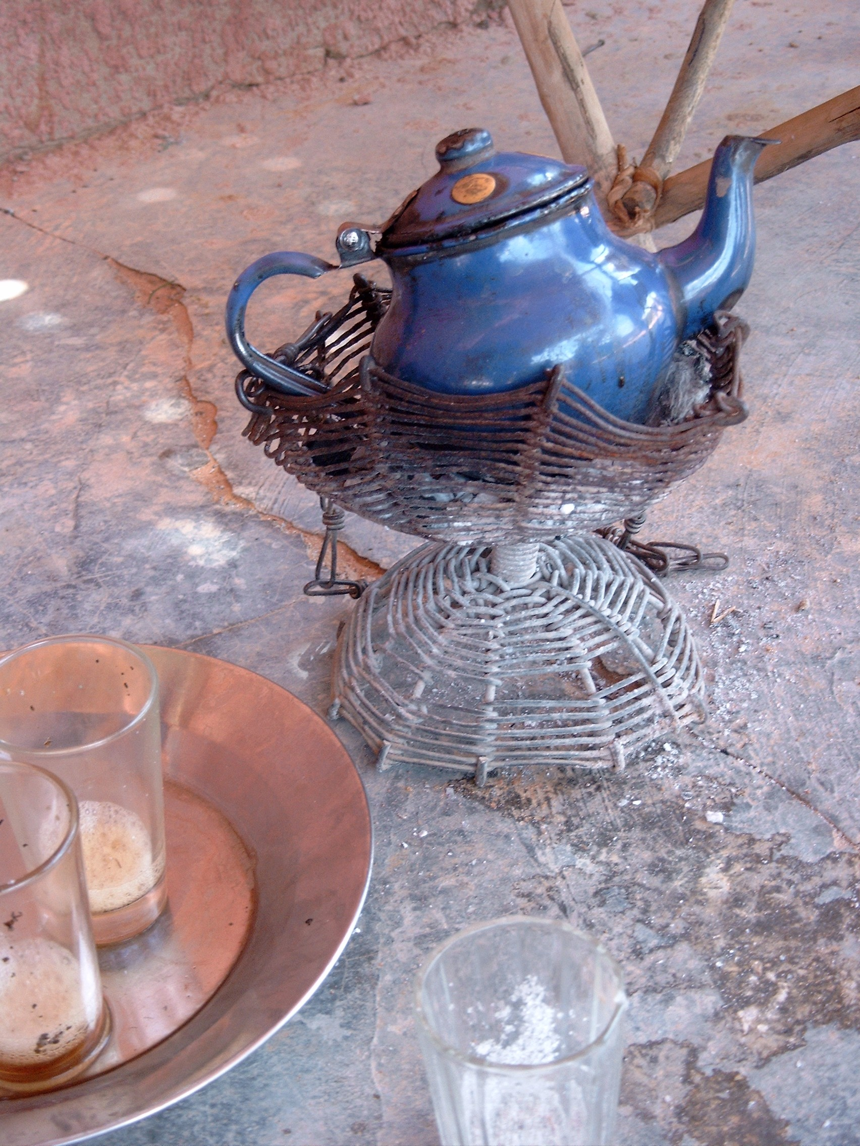 The strong traditional tea of the Sahel. Tea set of Amadou 'Gida' Hamadou,Gorom-Gorom, Burkina Faso.